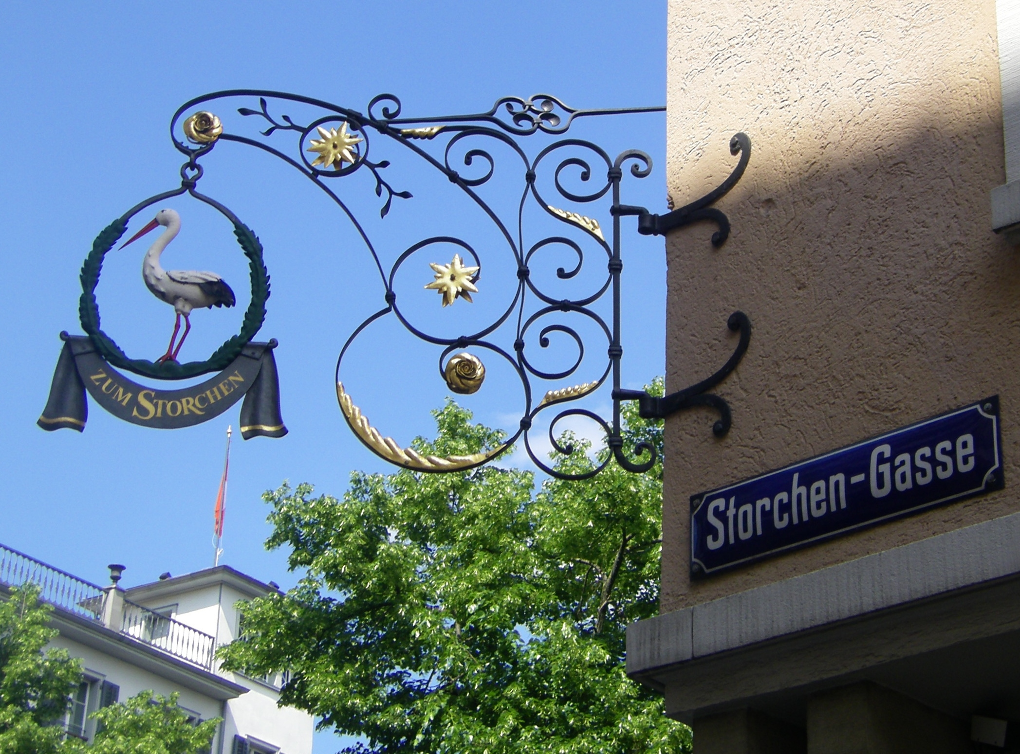 Sign of hotel and street at Storchengasse, Zurich